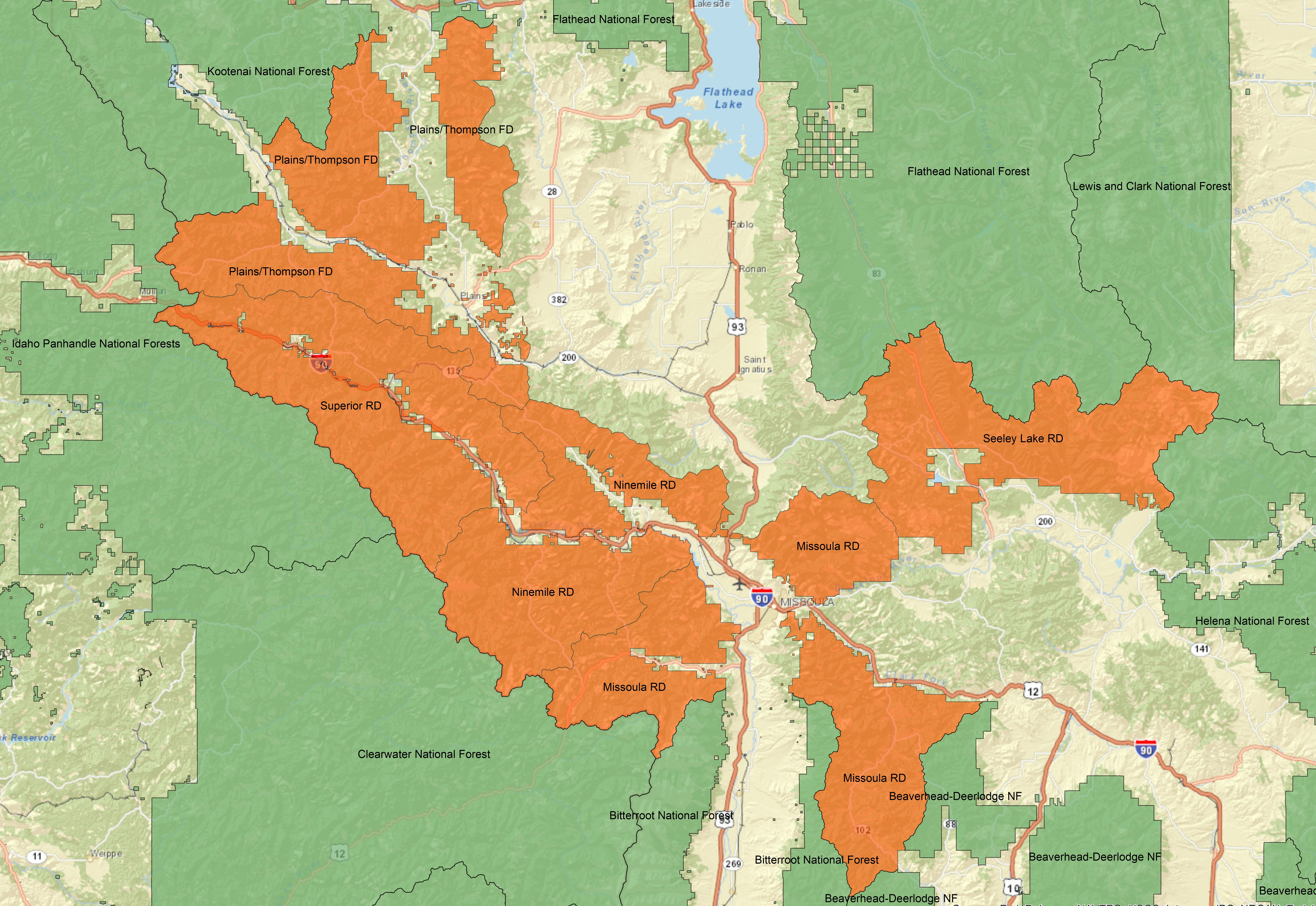 A map of Lolo National Forest in Montana. The MIssoula, Ninemile, Plains/Thompson, and Seeley Lake Ranger Districts of the forest are in orange. Surrounding national forests, including Beaverhead-Deerlodge, Bitterroot, Clearwater, Flathead, Helena, Idaho Panhandle, Kootenai, and Lewis and Clark are in green. This map was made using ARCMAP 10.1, and all data are in the public domain. Forest Service boundary data are from the US Forest Service FSGeodata Clearinghouse